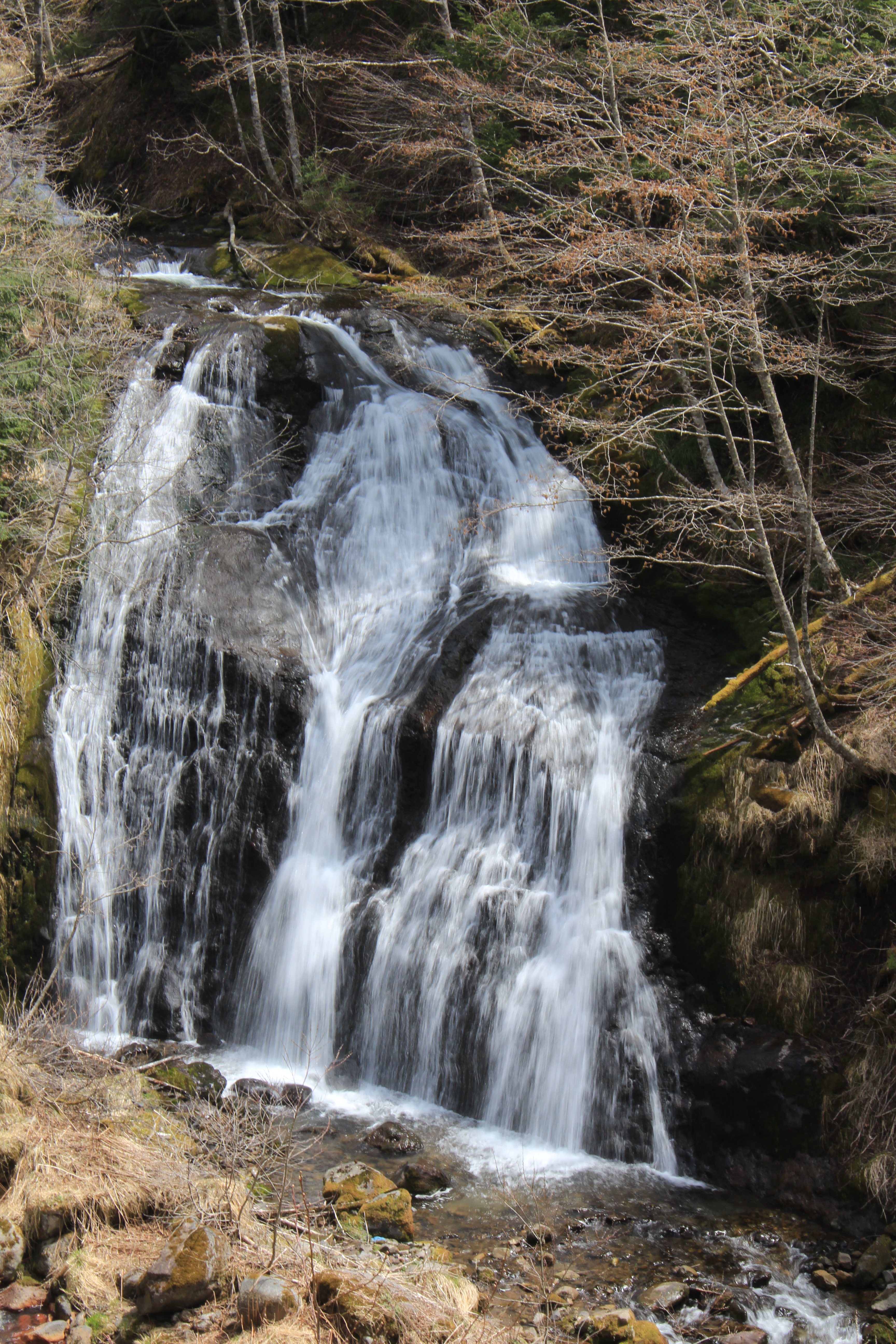 Shiraito Falls in Gero, Gifu prefecture, Japan.